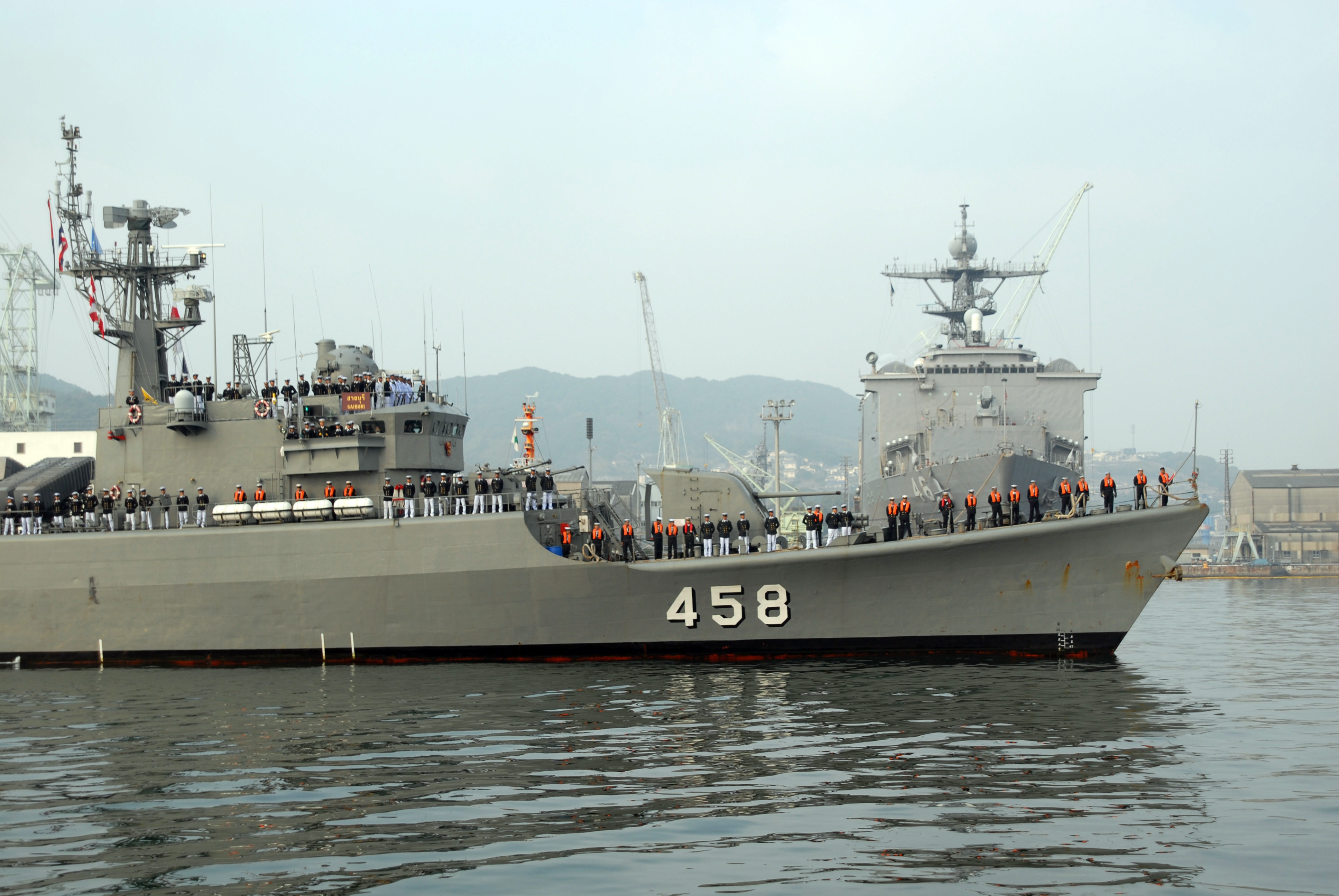 The Royal Thai Navy (RTN) frigate H.T.M.S. Saiburi (FF-58) passes the dock landing ship USS Tortuga (LSD 46) while transiting Sasebo Harbor to a berth at Fleet Activities Sasebo. Saiburi and the RTN frigate H.T.M.S. Naresuan are conducting an overseas cadet training tour to enhance the seamanship and professional skill of future Thai sailors and officers. Saiburi and Naresuan are conducting an overseas cadet training tour to enhance the seamanship and professional skill of future Thai sailors and officers and to broaden international perspectives and relationships with the countries the ships visit.